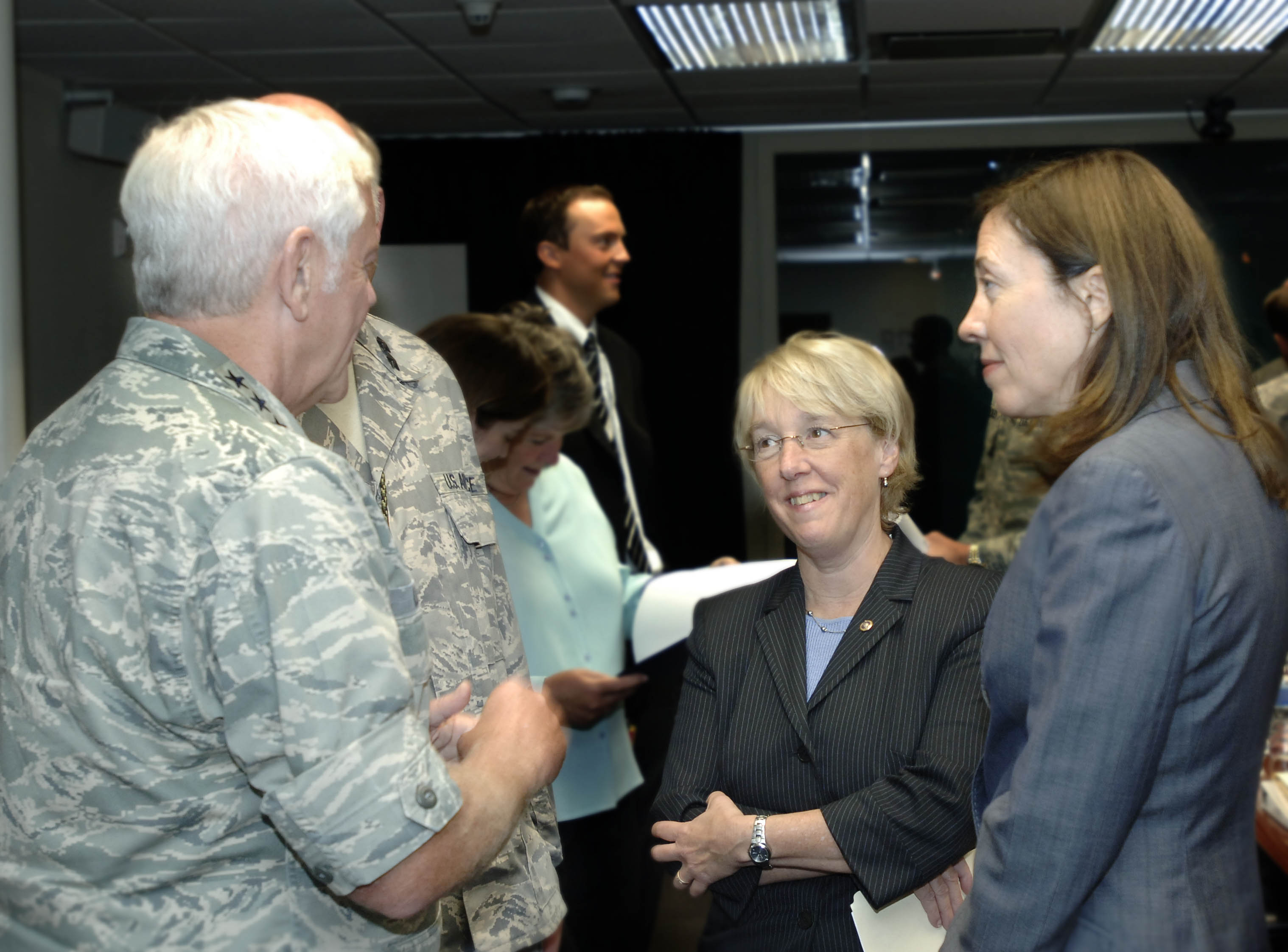 Patty Murray and Maria Cantwell, U.S. Senators from Washington State, converse with Gen. Arthur Lichte, Air Mobility Command commander